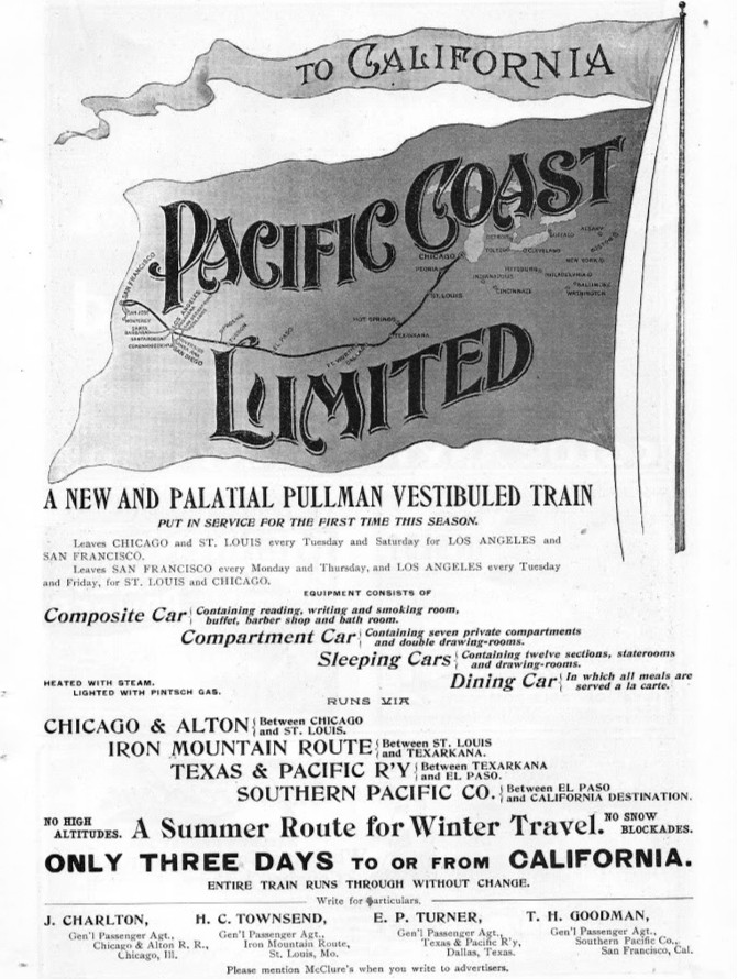 1898 ad for the Pacific Coast Limited, a train traveling from Chicago to San Francisco via St. Louis, Hot Springs, Texarkana, Dallas, Fort Worth, El Paso, Tucson and Los Angeles. The train was a joint partnership between the Chicago and Alton, St. Louis, Iron Mountain and Southern, Texas and Pacific and Southern Pacific Railways.